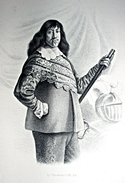 Frederik 3. King of Denmark and Norway